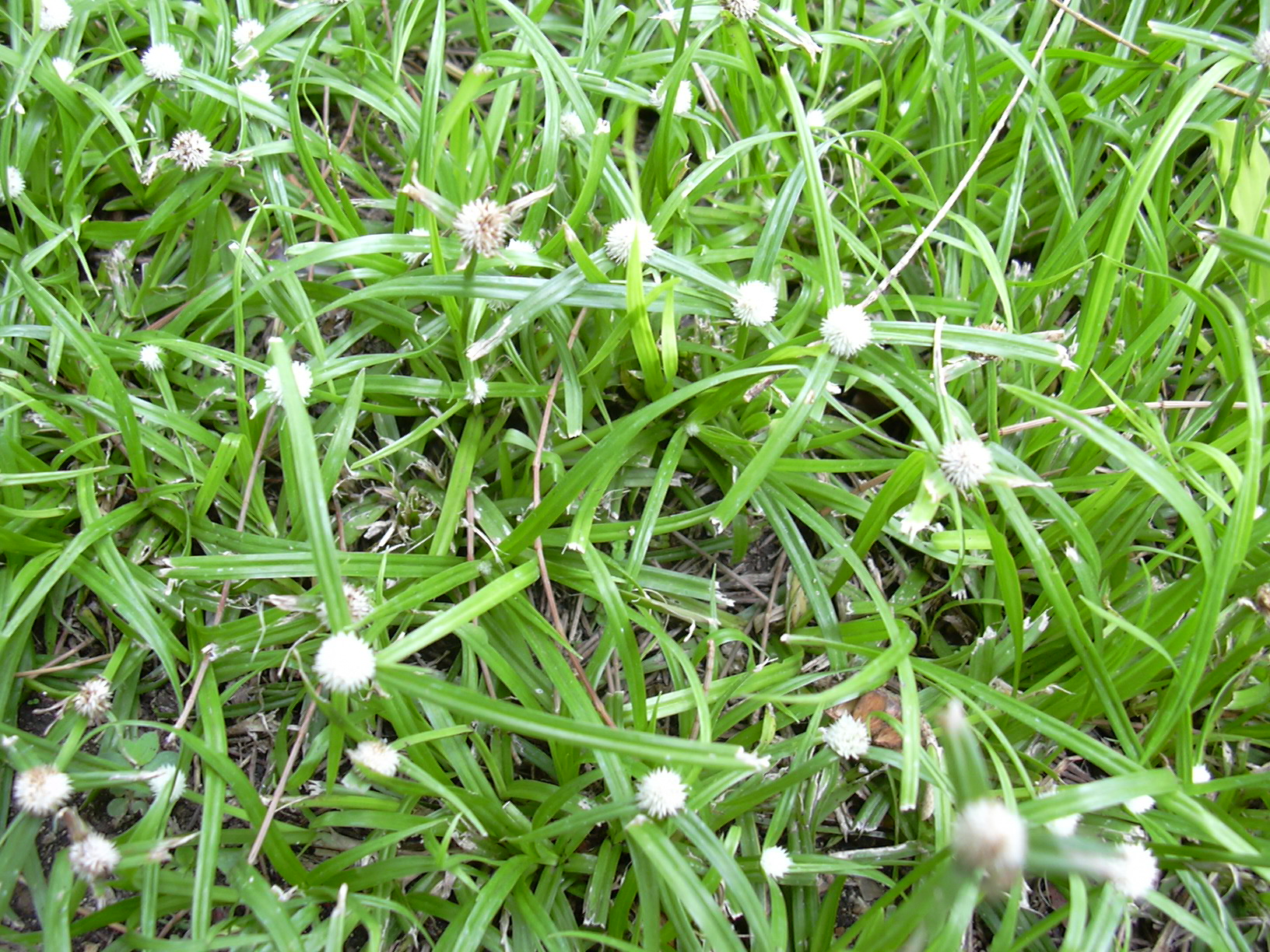 Kyllinga nemoralis (habit). Location: Maui, Kahului